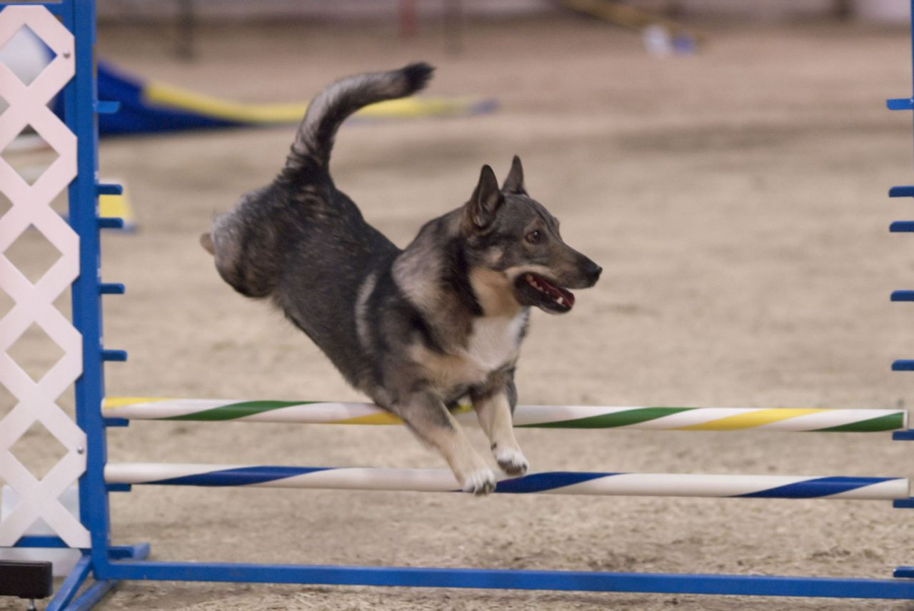 A Swedish Vallhund doing agility.